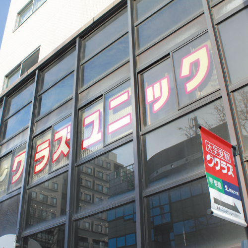 Classe Unique preparatory school, Maruyama branch